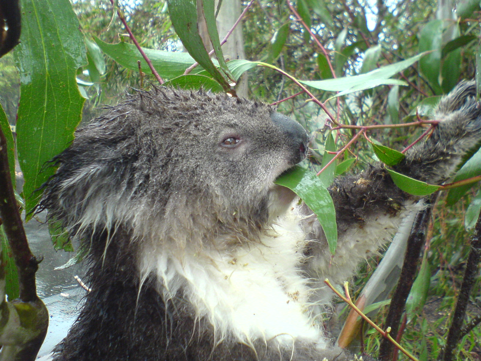 A wild Koala I found on the edge of the carpark atop Mt Macedon. He was not in any sort of captivity, but was still tolerant of us giving him a quick pat and taking pictures. Everyone else was too busy rushing to the cafe to notice the Koala. He was first sitting on the ground, then over a half hour or so made his way a couple of feet up a tree to eat.